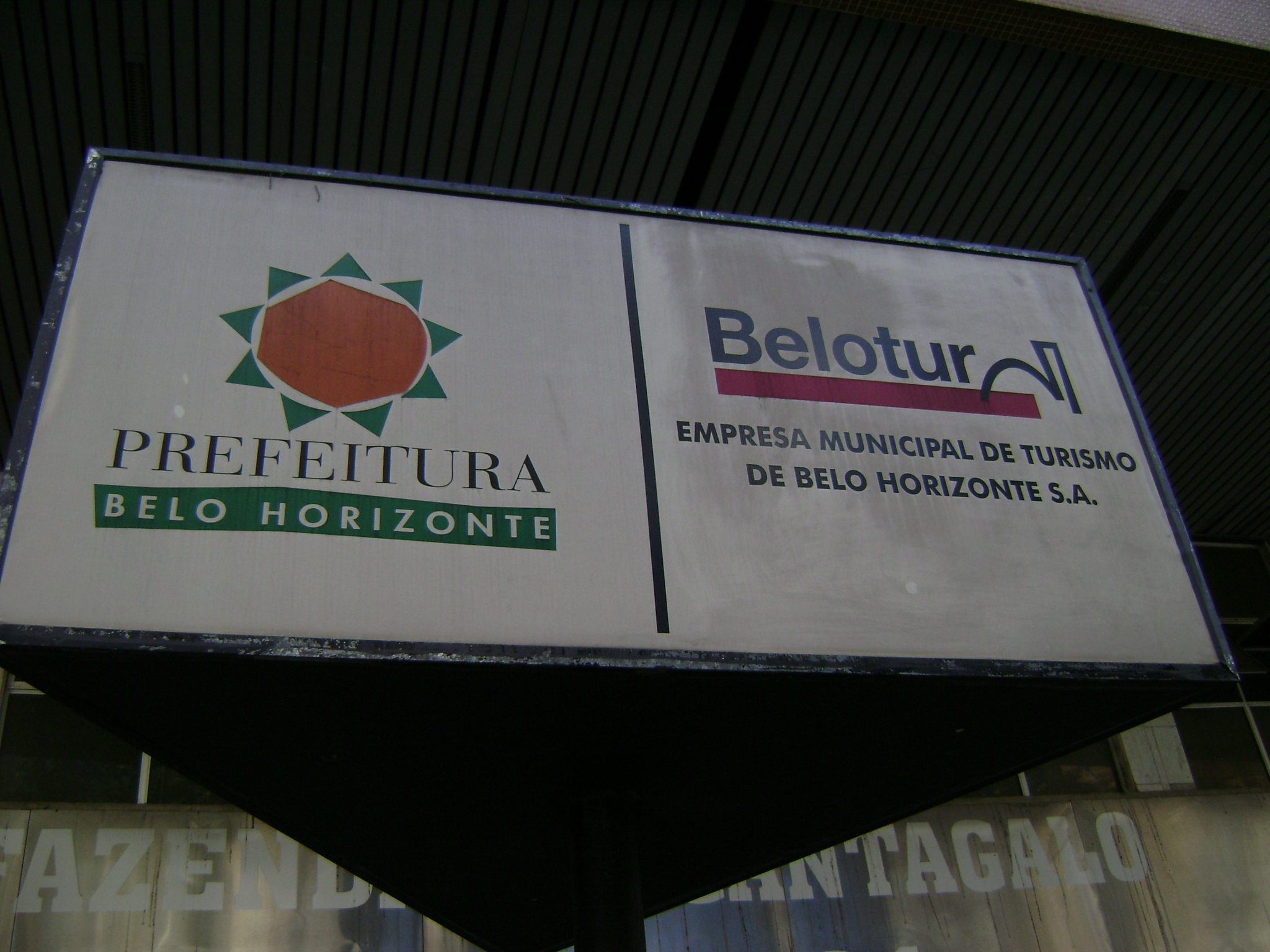 Placa da Belotur